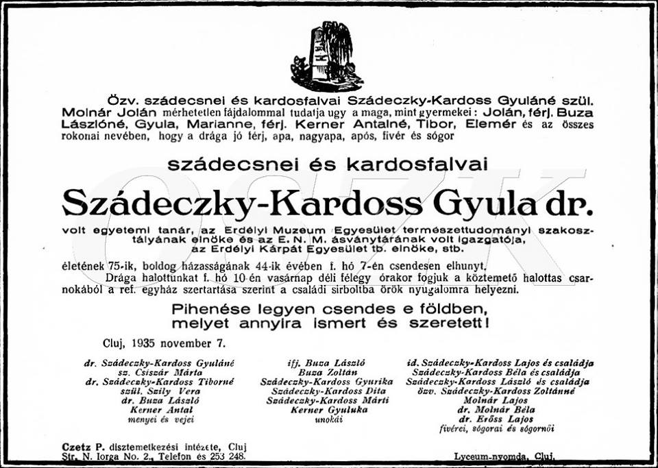 Mourning report of the geologist Gyula Szádeczky-Kardoss (1860-1935)